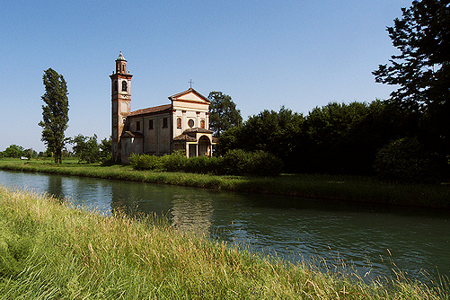 Church of Santa Caterina, Bagnolo Cremasco, near Crema, province of Cremona, Italy